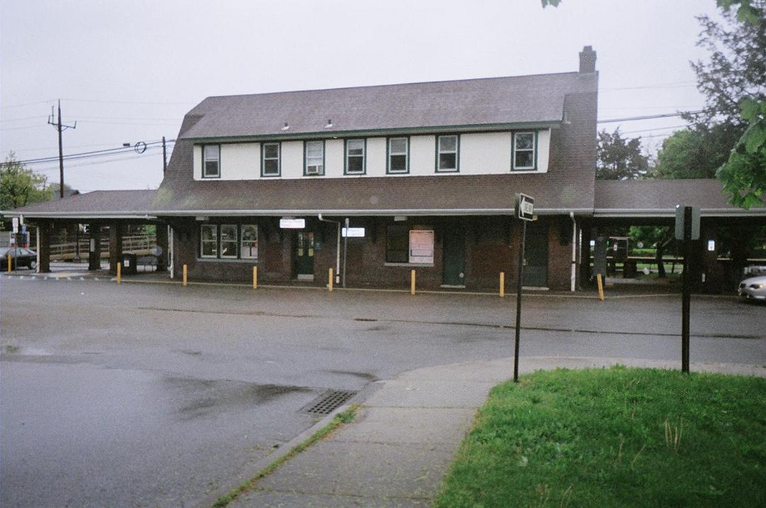 Image of Northport (LIRR station) from the Bellerose Avenue entrance. Originally posted on Wikipedia as Image:Northport LIRR Station-1.JPG on May 13, 2008.